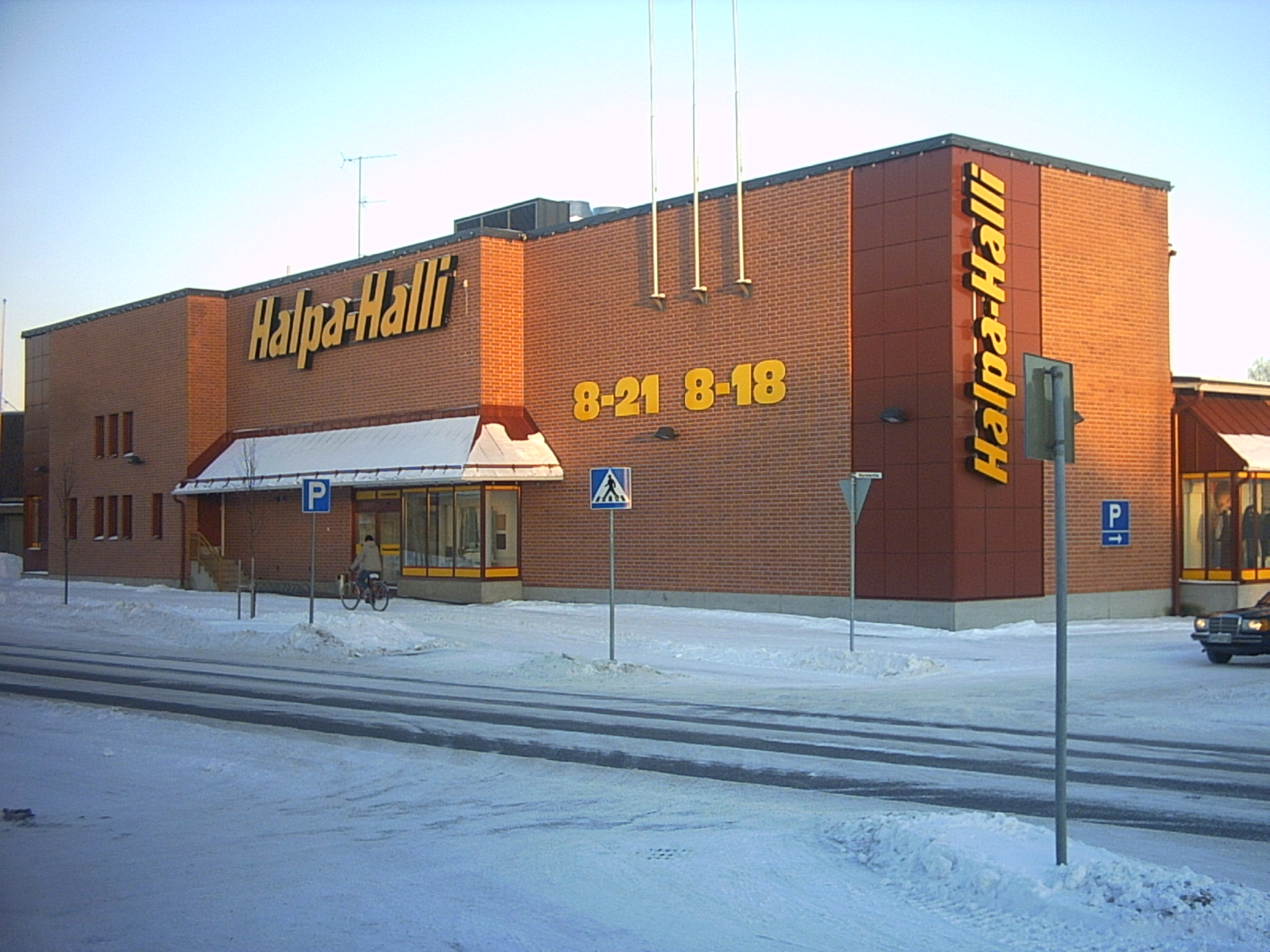 Halpa-Halli shop in Kauhava, Finland